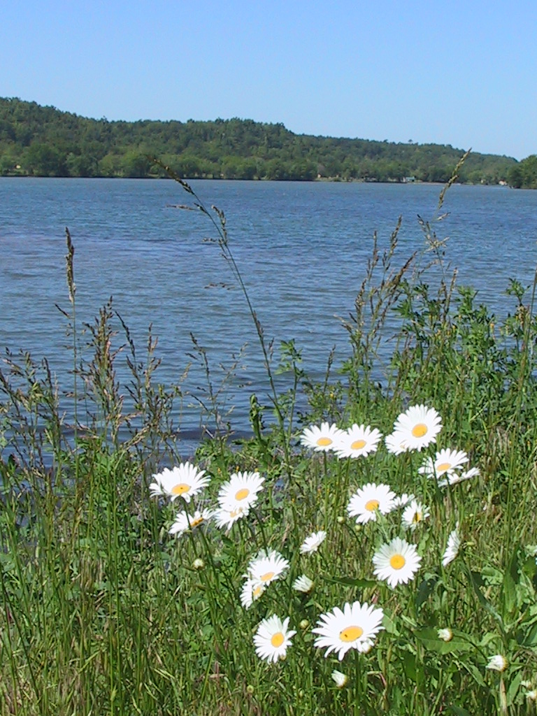 Spavinaw Creek. 5 miles south of Jay, Oklahoma